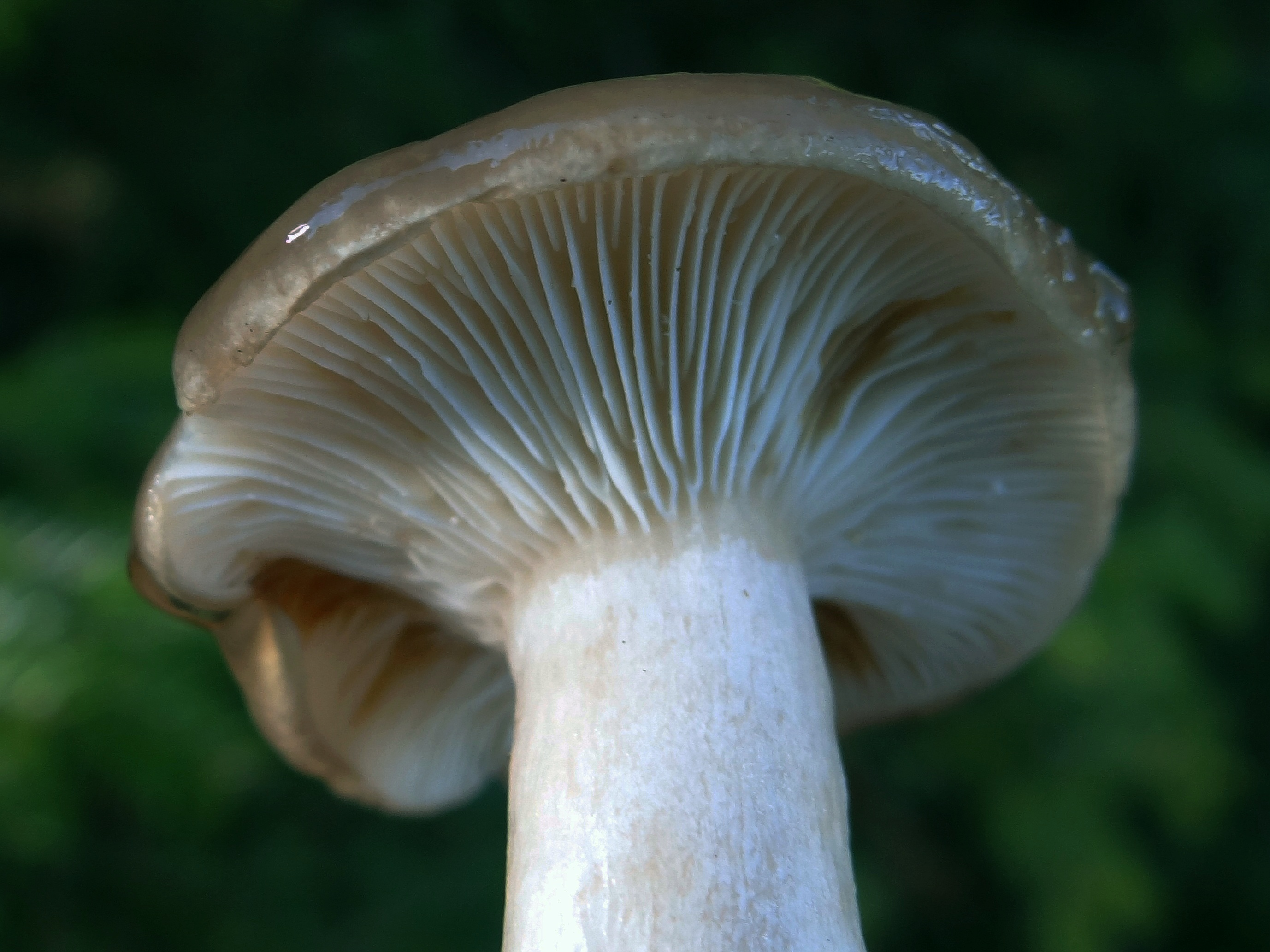 Hygrophorus agathosmus